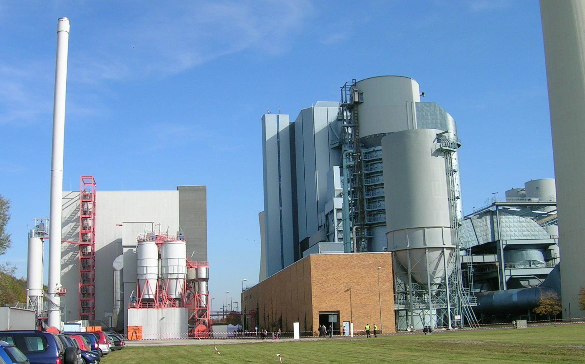 Biomass power plant in Zolling, Bavaria